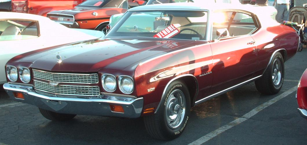 1970 Chevrolet Chevelle Malibu Coupe photographed in Montreal, Quebec, Canada at Gibeau Orange Julep.